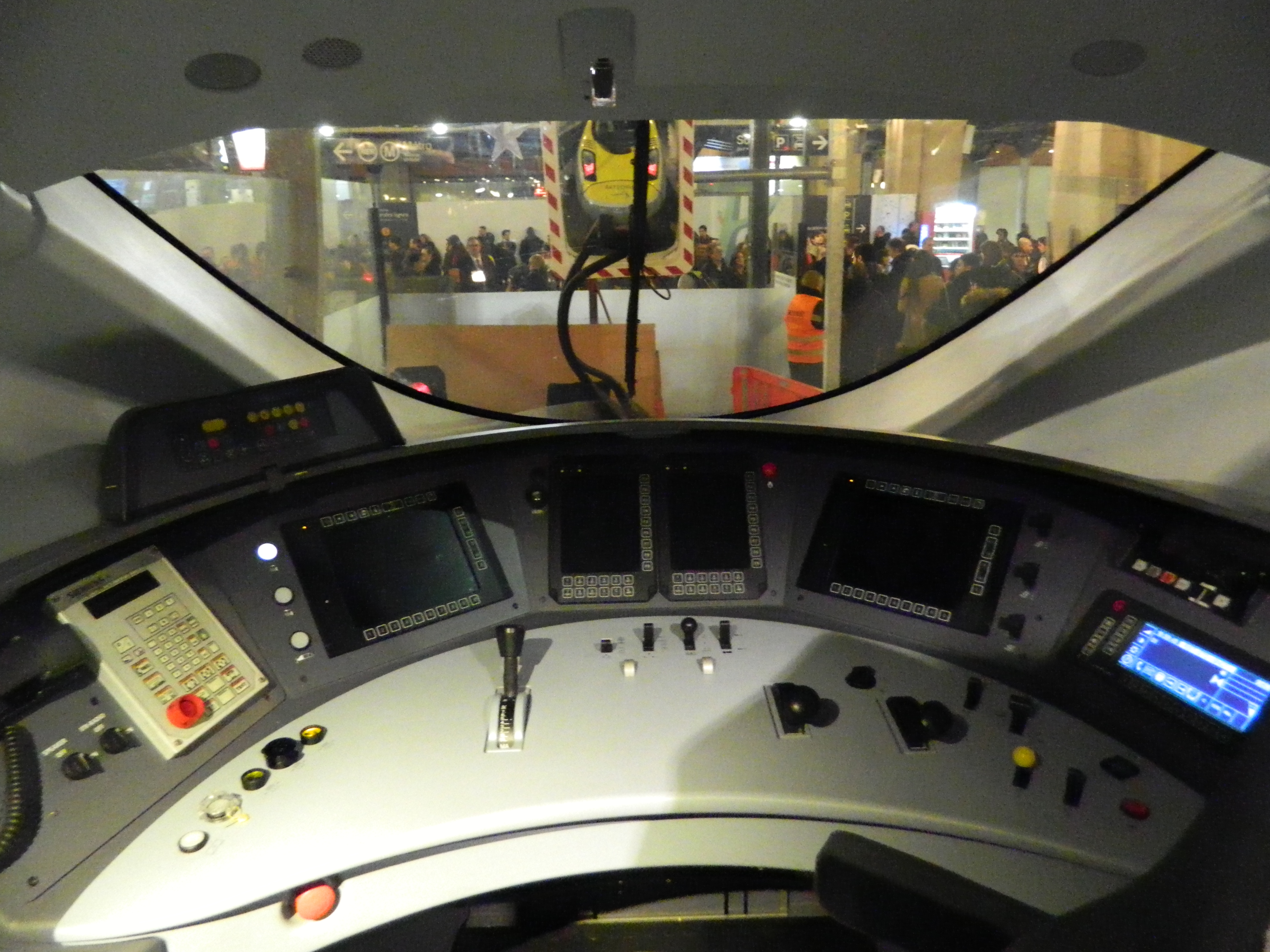 The cab of 374009 at Paris Gare du Nord, after terminating from London St Pancras.